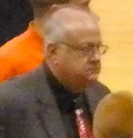 Syracuse men's basketball asst. coach Bernie Fine in 2010.